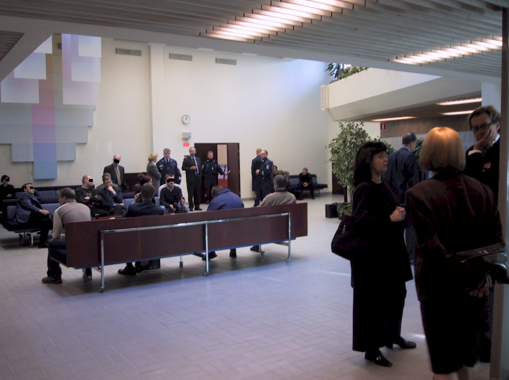 Helsinki Court of Appeal